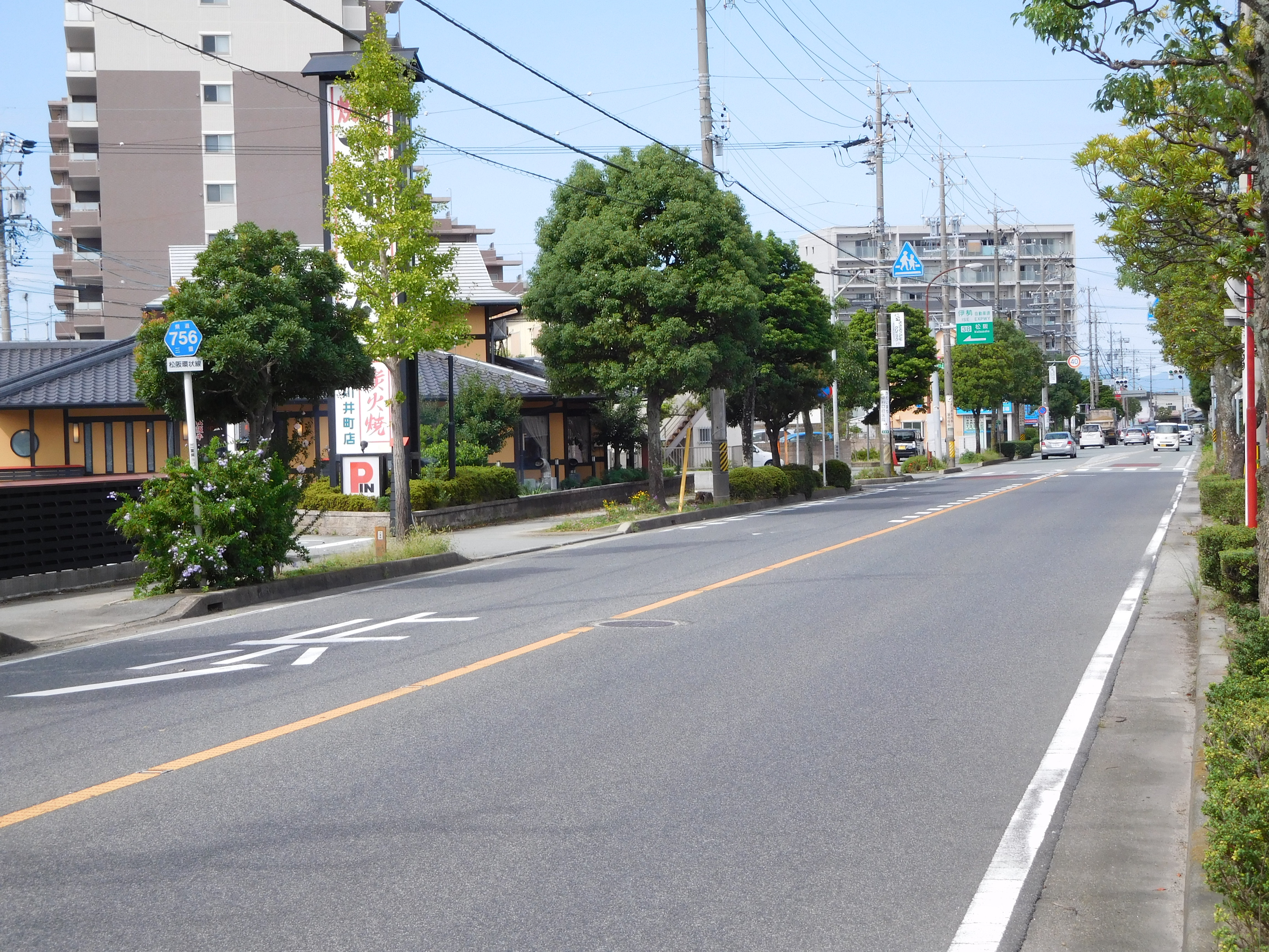 This is a scene of Mie prefectural road No.756 Matsusaka Roop Line in Kawai-cho, Matsusaka, Mie, Japan.